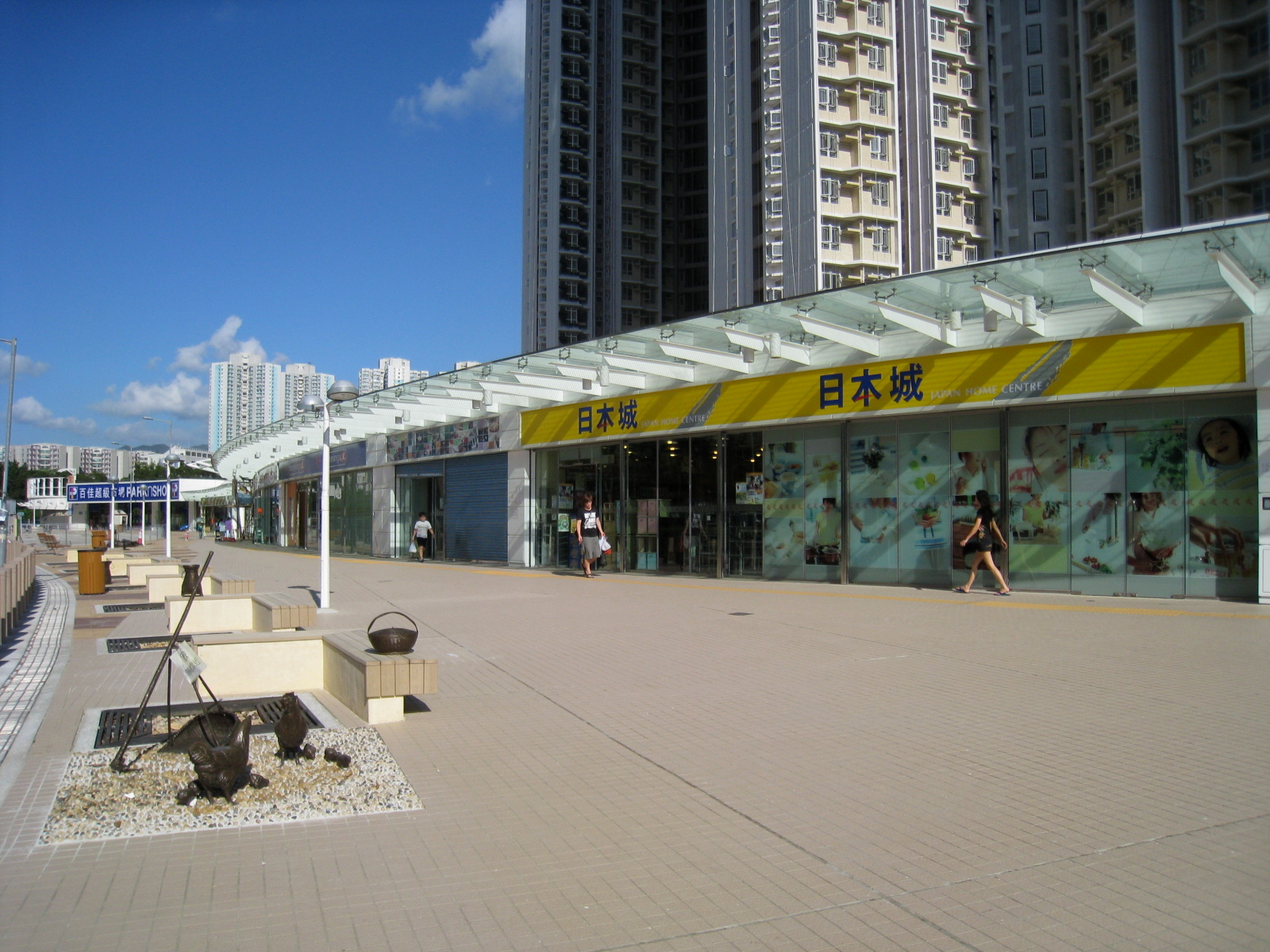 Ching Ho Shopping Centre 清河商場